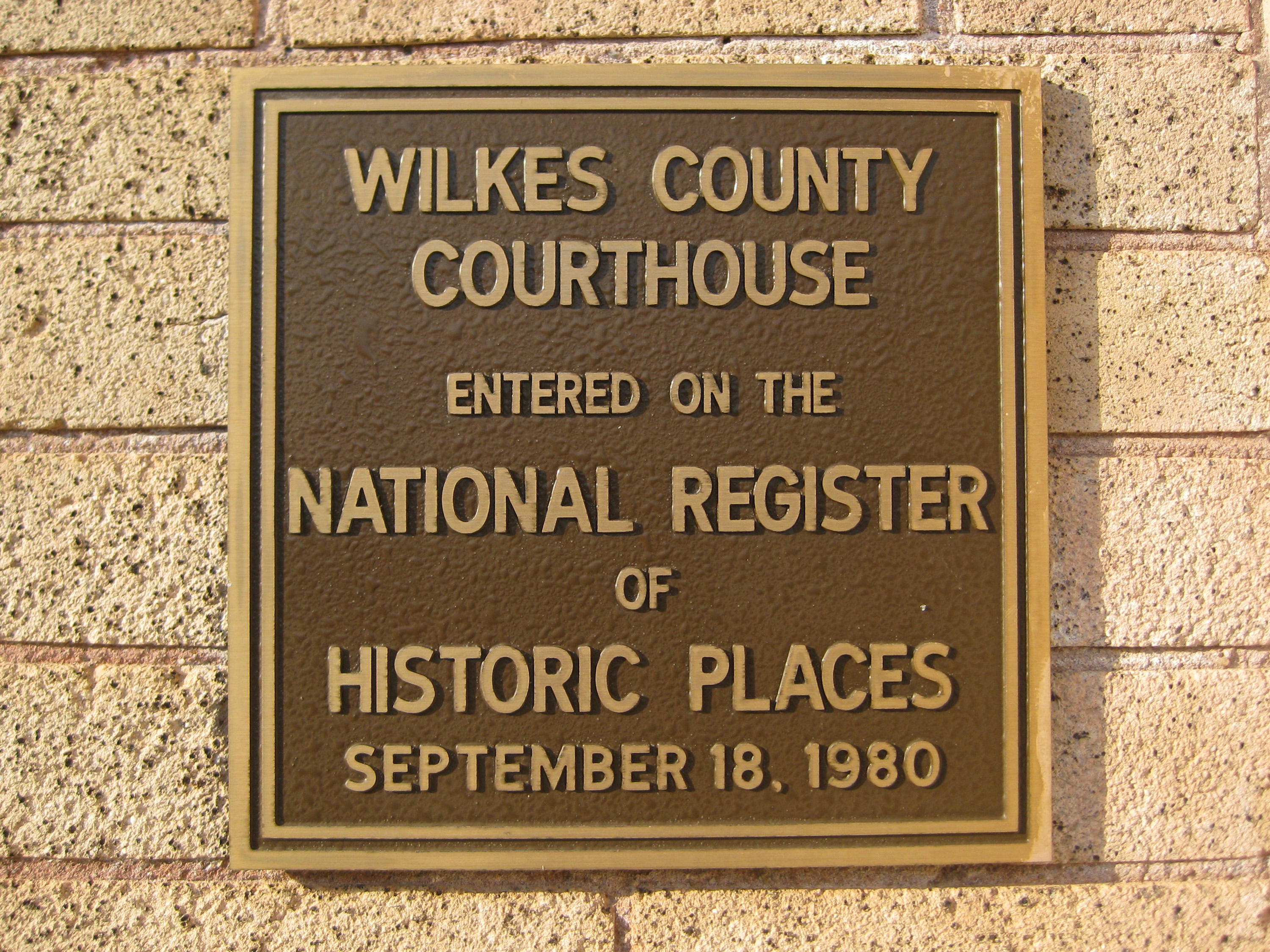 Plaque affixed to the Wilkes County Courthouse in Washington, Georgia, commemorating its September 18th, 1980 entry on the U.S. National Register of Historic Places.